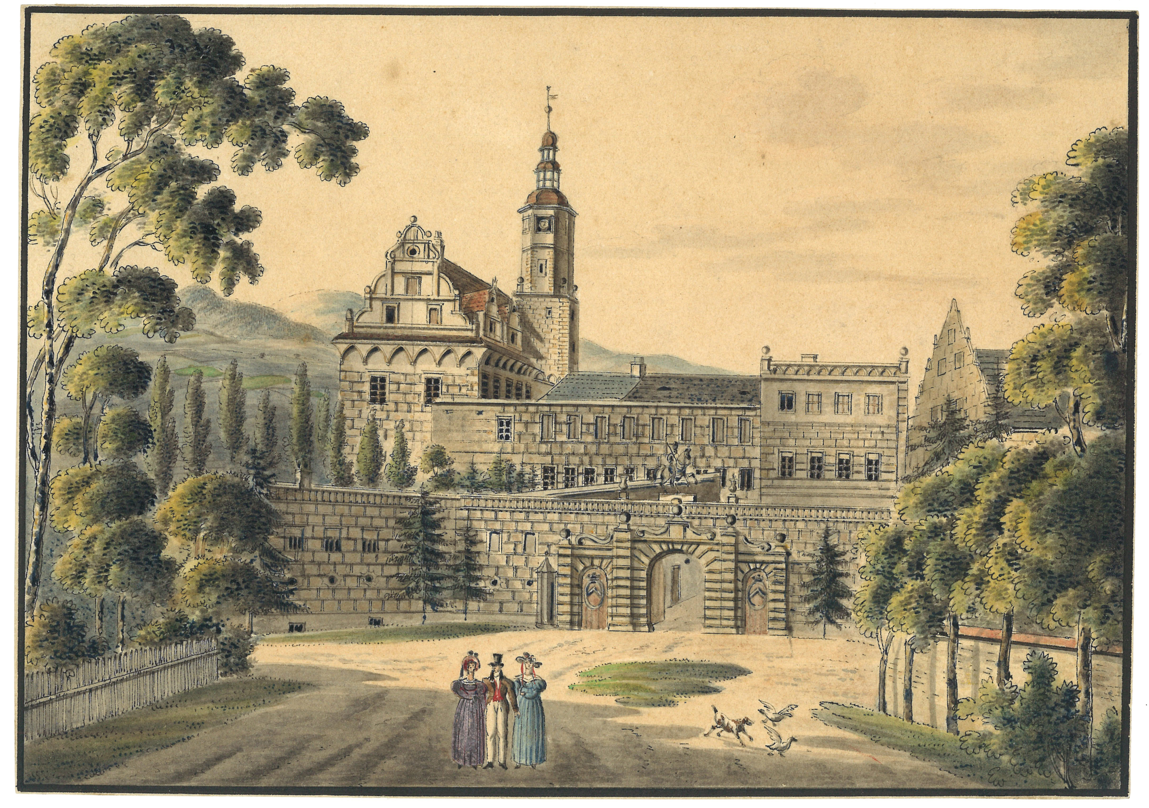 Colored ink drawing of Grafenort Castle around 1800.